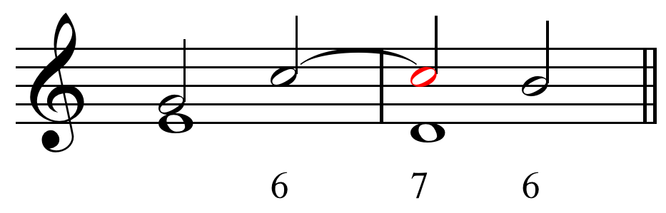 Syncope.